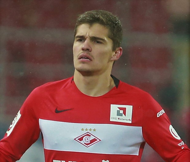 Roman Zobnin